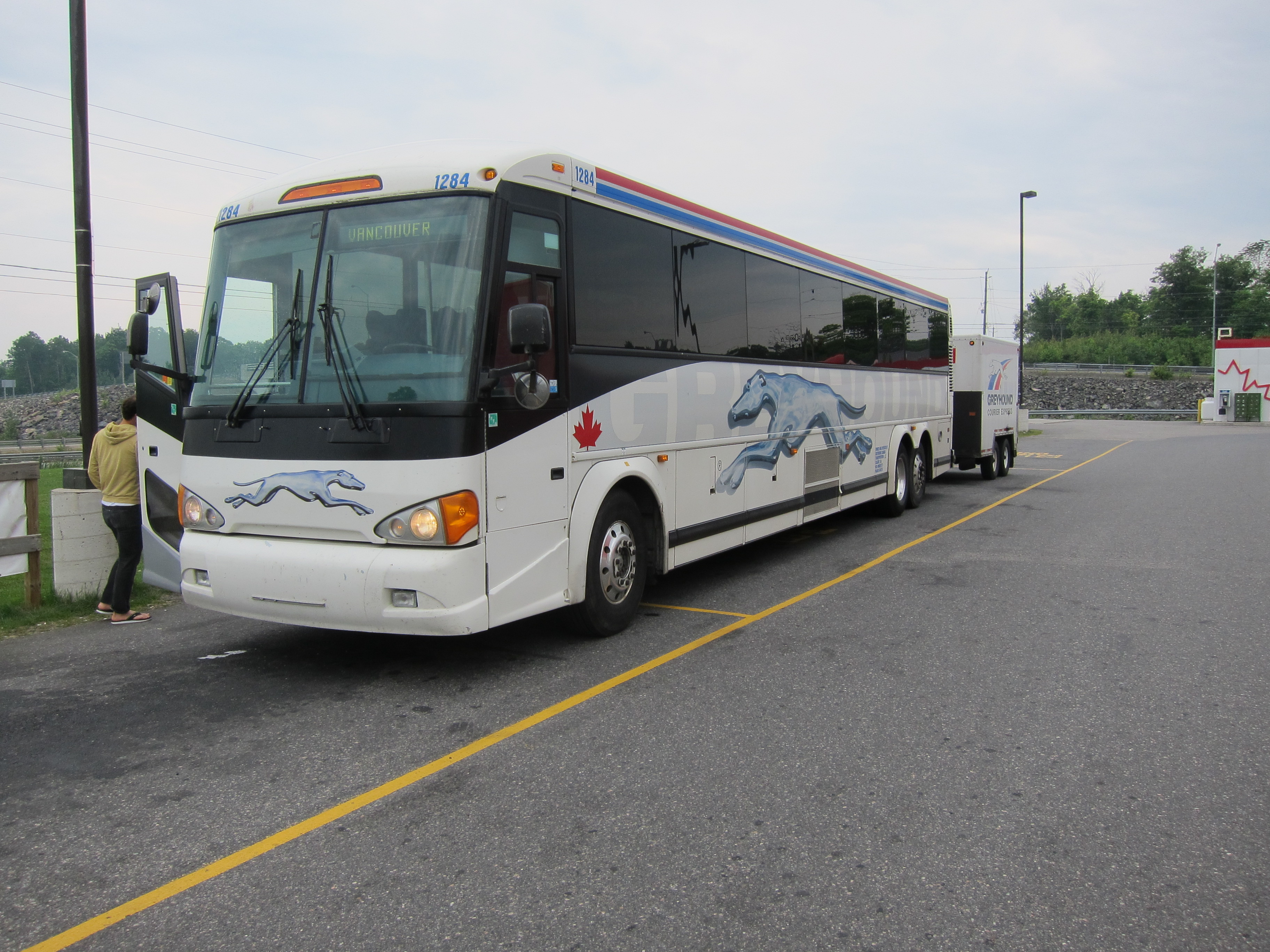 This Greyhound bus operates on the transcanadian Toronto-Vancouver line and particularly on the Toronto-Winnipeg section